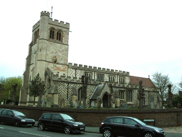 All Saints, Houghton Regis. A fine old church perched on a busy, fumy junction. The chequer-board design seems to be common in the area (Cf. the nearby 116127) More information about All Saints, Houghton Regis here